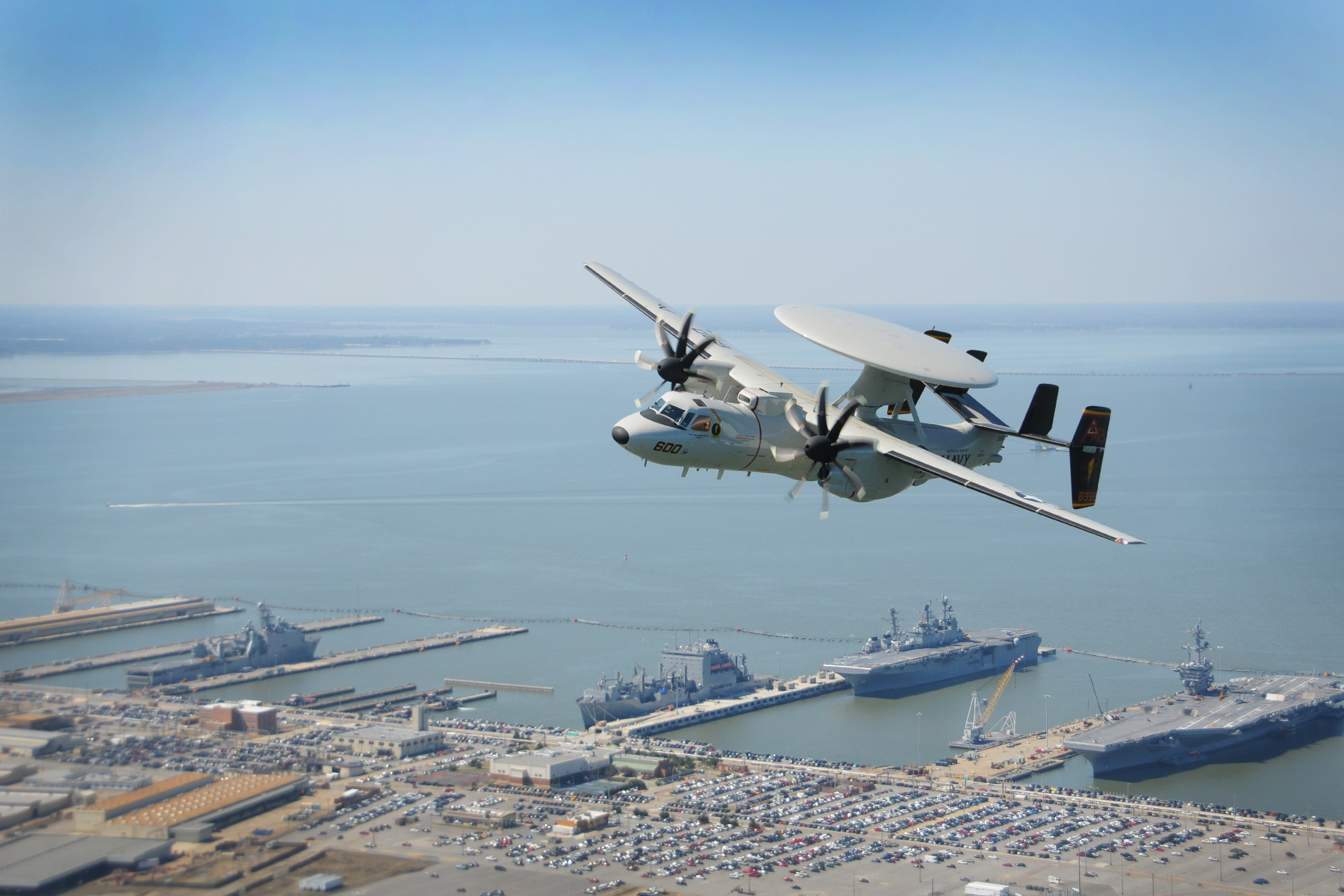 NORFOLK (March 20, 2014) An E-2D Hawkeye assigned to the Tiger Tails of Carrier Airborne Early Warning Squadron (VAW) 125 flies over Naval Station Norfolk. VAW-125 provides airborne early warning and command and control to Carrier Air Wing 1 and is assigned aboard the aircraft carrier USS Theodore Roosevelt (CVN 71).